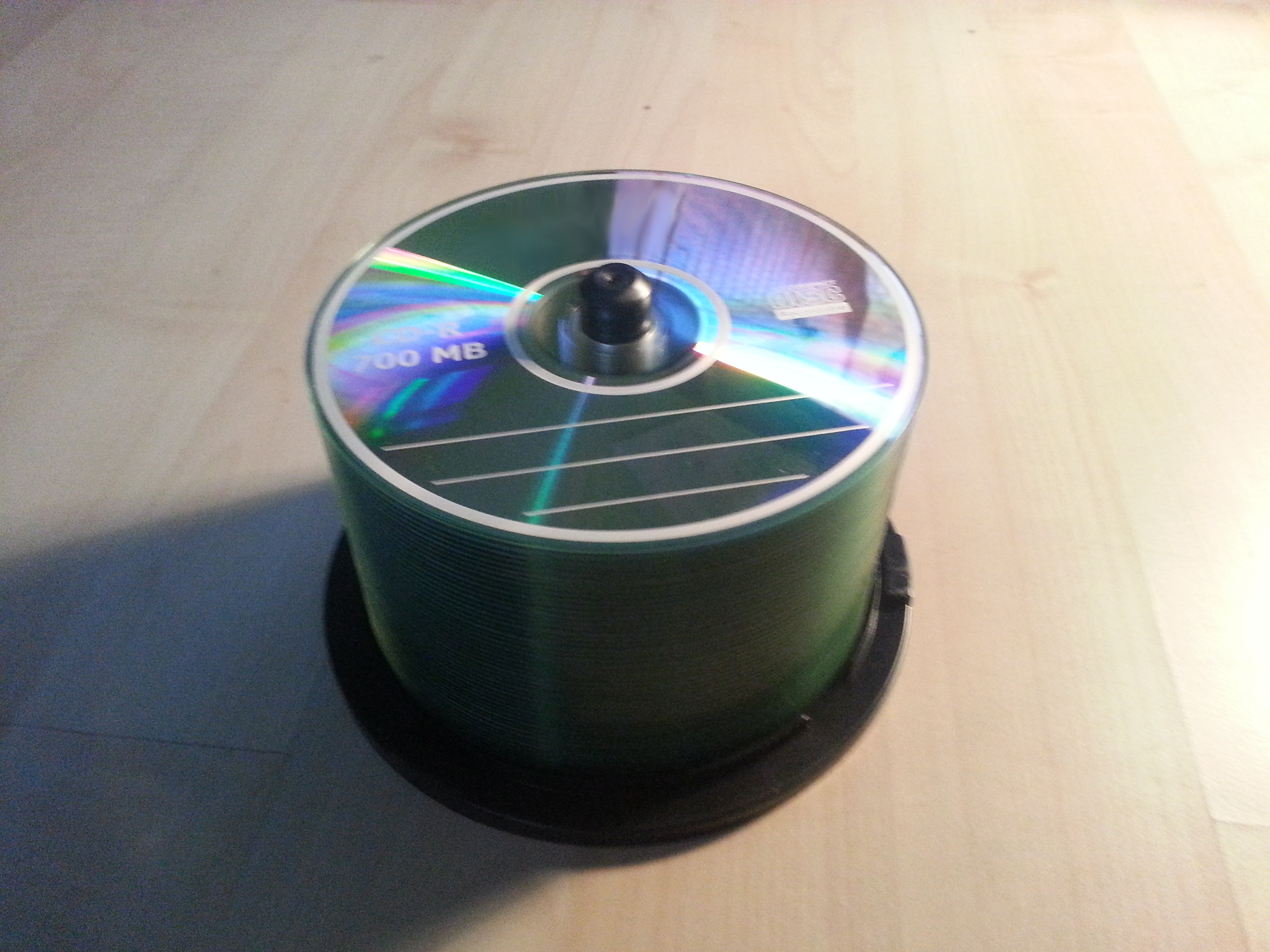 A stack with CD-R